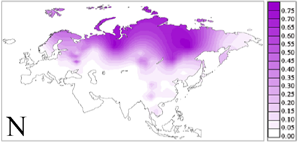 Eurasian frequency distributions of Y-chromosome haplogroups N. Haplogroups N is considered of Southern East Asia origin (Shi et al., 2013) , depicts the prevalence of this haplogroup mainly in Northern Eurasia. Thus, it is most numerous in European Russia, in particular in: Kursk (92.5%) (Mirabal et al., 2009) , Tver (78.9%), Mezen (53.7%), Krasnoborsk (39.6%), Pinega (39.5%) and Vologda (38.8%); in Siberia, among Yakuts (84.2%) (Derenko et al., 2007a; Sengupta et al., 2006) and Khanty (81.5%) (Mirabal et al., 2009) ; and among Swedish Saami (44.7%) (Karlsson et al., 2006) . Haplogroup N abruptly dissipates in lower latitudes, being virtually absent in southern Eurasia, with the exception of certain southwest Chinese ethnic groups such as Sichuan (13.2%) and Yunnan (10.7%) (Zhong et al., 2011) . Unlike the other considered haplogroups, Hg N has quite uneven distribution among European populations which is summarized in Table 1. It is apparent that Hg N is most prominent in East Slavic populations (Russians, Belarusians and Ukrainians) (Battaglia et al., 2009; Kushniarevich et al., 2013; Mirabal et al., 2009) and Swedish Saami (Karlsson et al., 2006) , but is almost lacking among other Europeans.